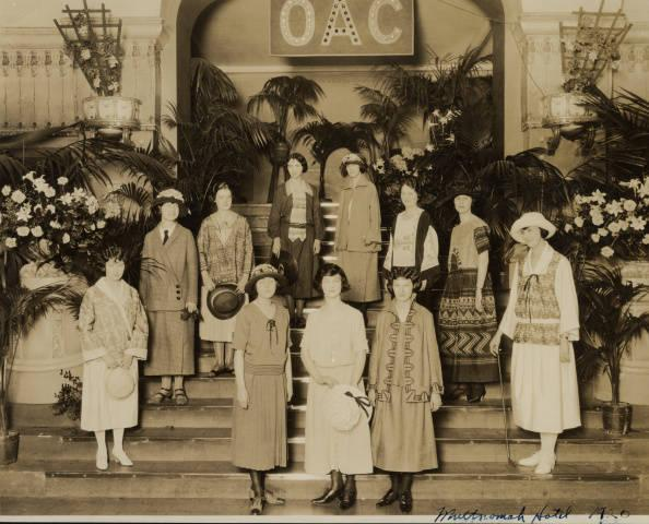 Original Collection: College of Home Economics Photographic Collection Item Number: P044 Image Description: The Oregon Agricultural College Home Economics Department had a style show at the Multnomah Hotel in Portland, Oregon. Restrictions: Please contact the OSU Archives for permissions forms or information on how to cite our collections. Click here to view our digital collections. You can find this image by searching for the item number. Click here to view Oregon State University's other digital collections. We're happy for you to share this digital image within the spirit of The Commons; however, certain restrictions on high quality reproductions of the original physical version may apply. To read more about what “no known restrictions” means, please visit the [” OSU Archives website].